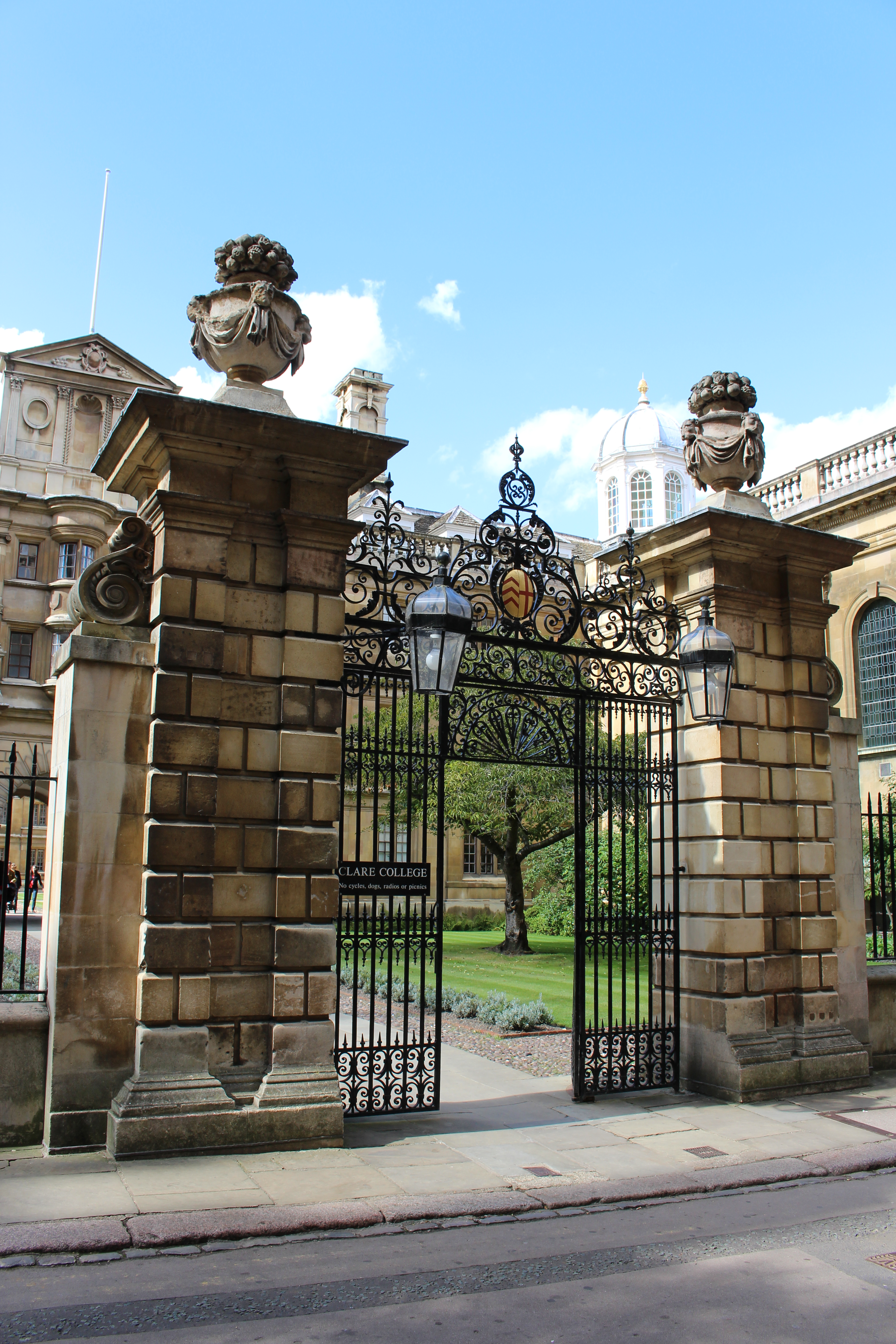 Clare College, Cambridge - Gates and Railings to Trinity Hall Lane